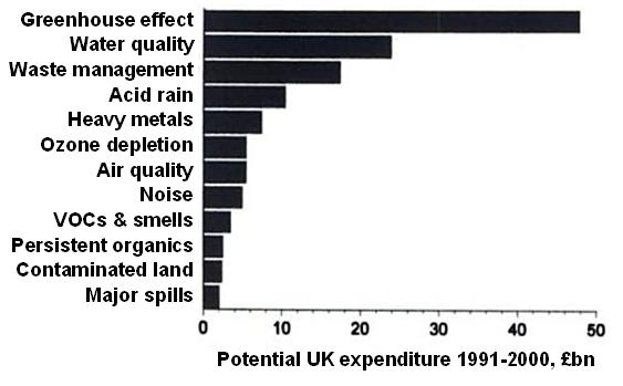 Potential environmental expenditure in the UK 1991-2000 according to Good, B: Industry and the Environment: A Strategic Overview. Centre for Exploitation of Science and Technology, London, 1991.